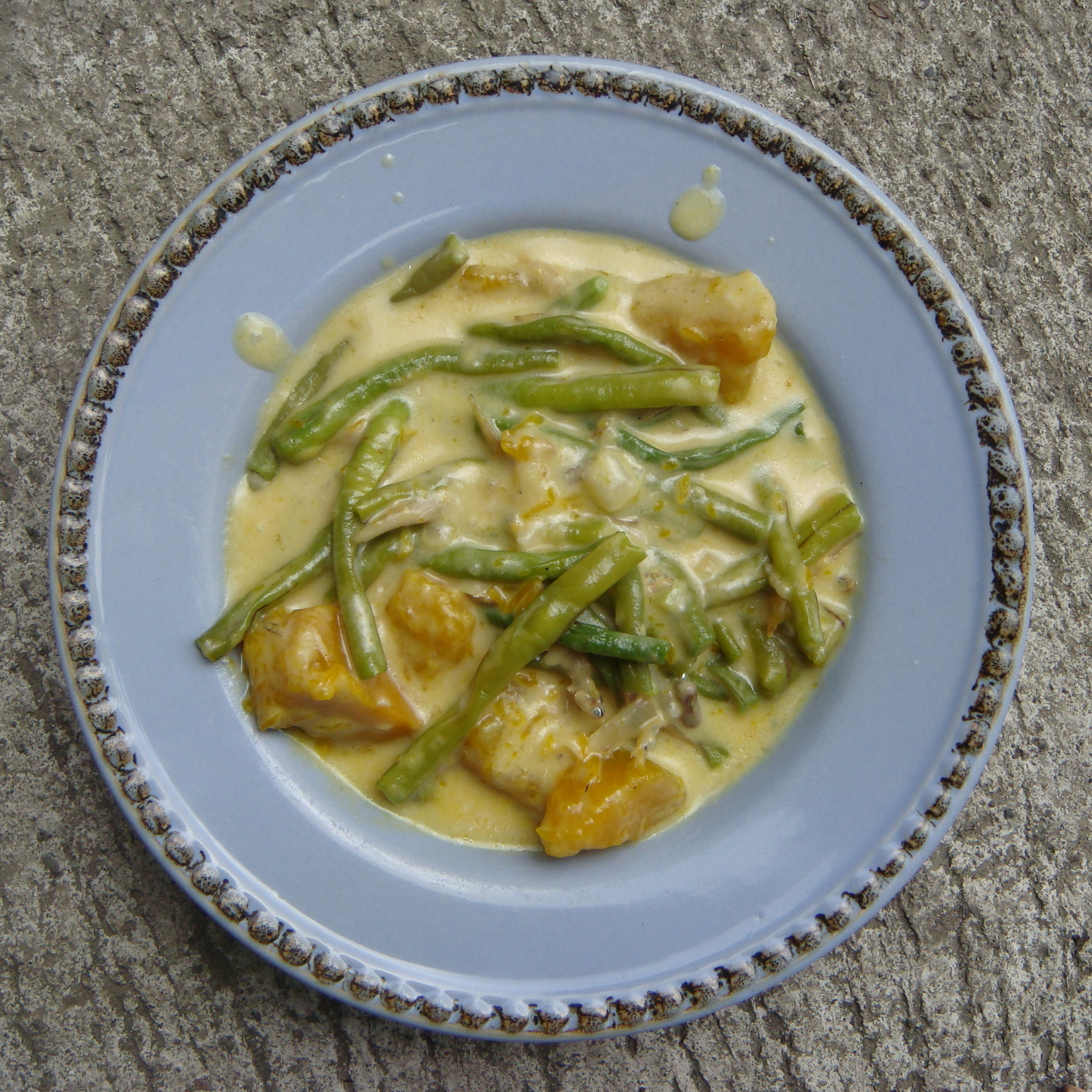 Ginataang kalabasa at sitaw (squash & string beans)[1]